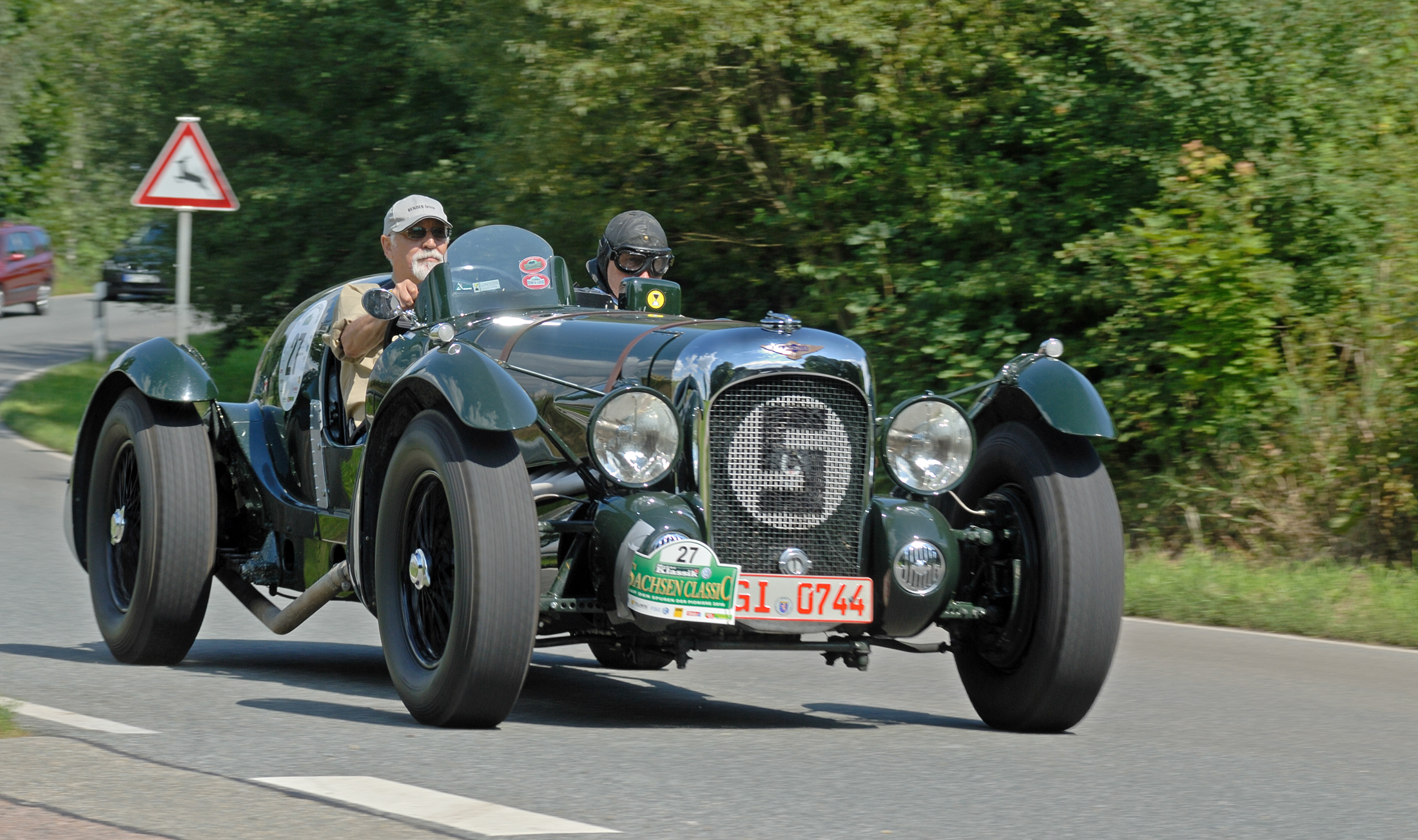 Lagonda Le Mans V12 from 1939 during the Saxony Classic Rallye 2010